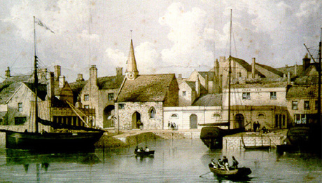 The Quay, Barnstaple, North Devon. Queen Anne's Walk to left; The West Gate of the town at rear, on the immediate right of which is the Chapel of St Nicholas.